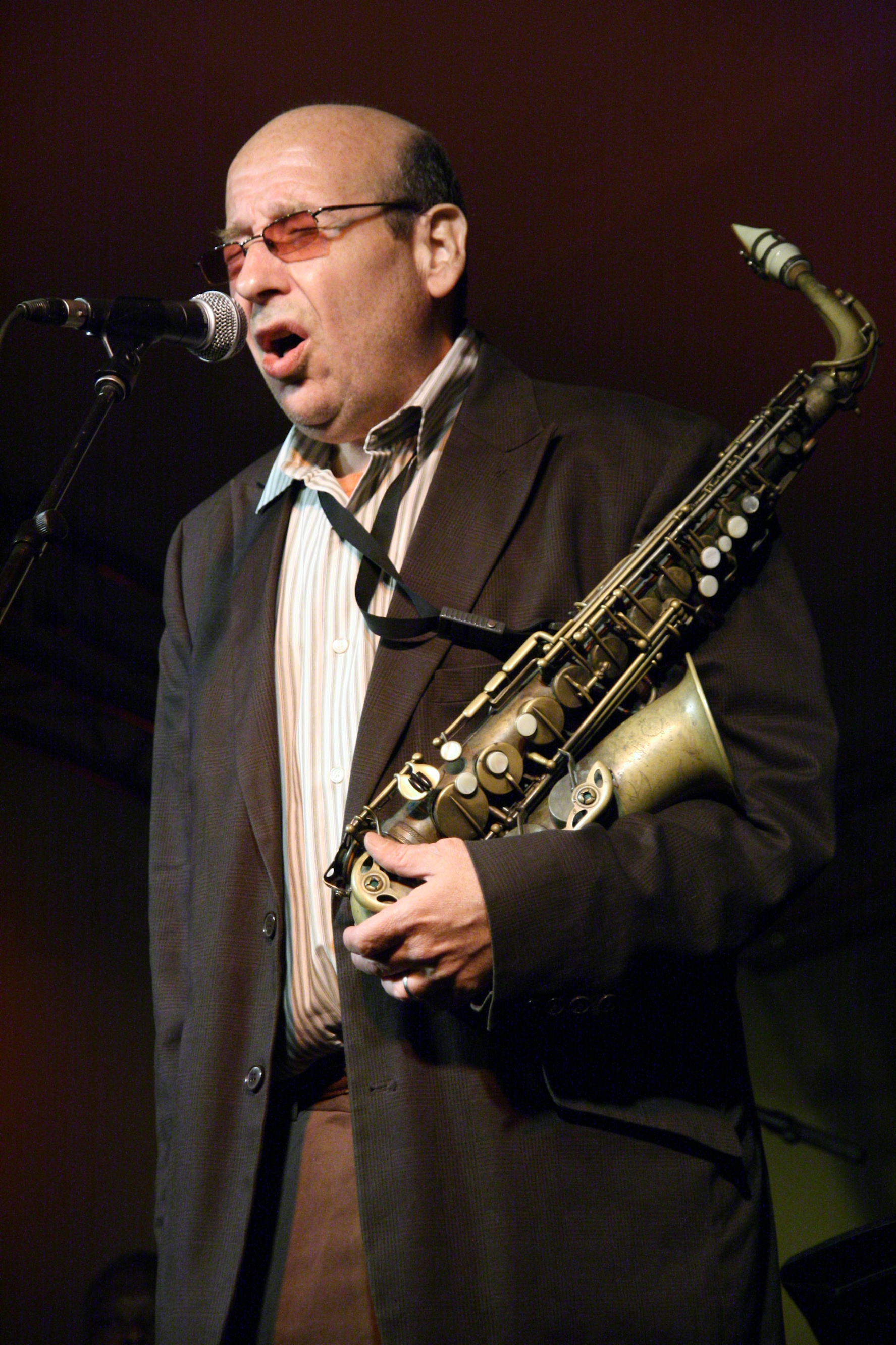 Bob Mover, jazz saxophonist and vocalist. Performance with Bob Mover Quintet at 2008 Ghent Jazz Festival.